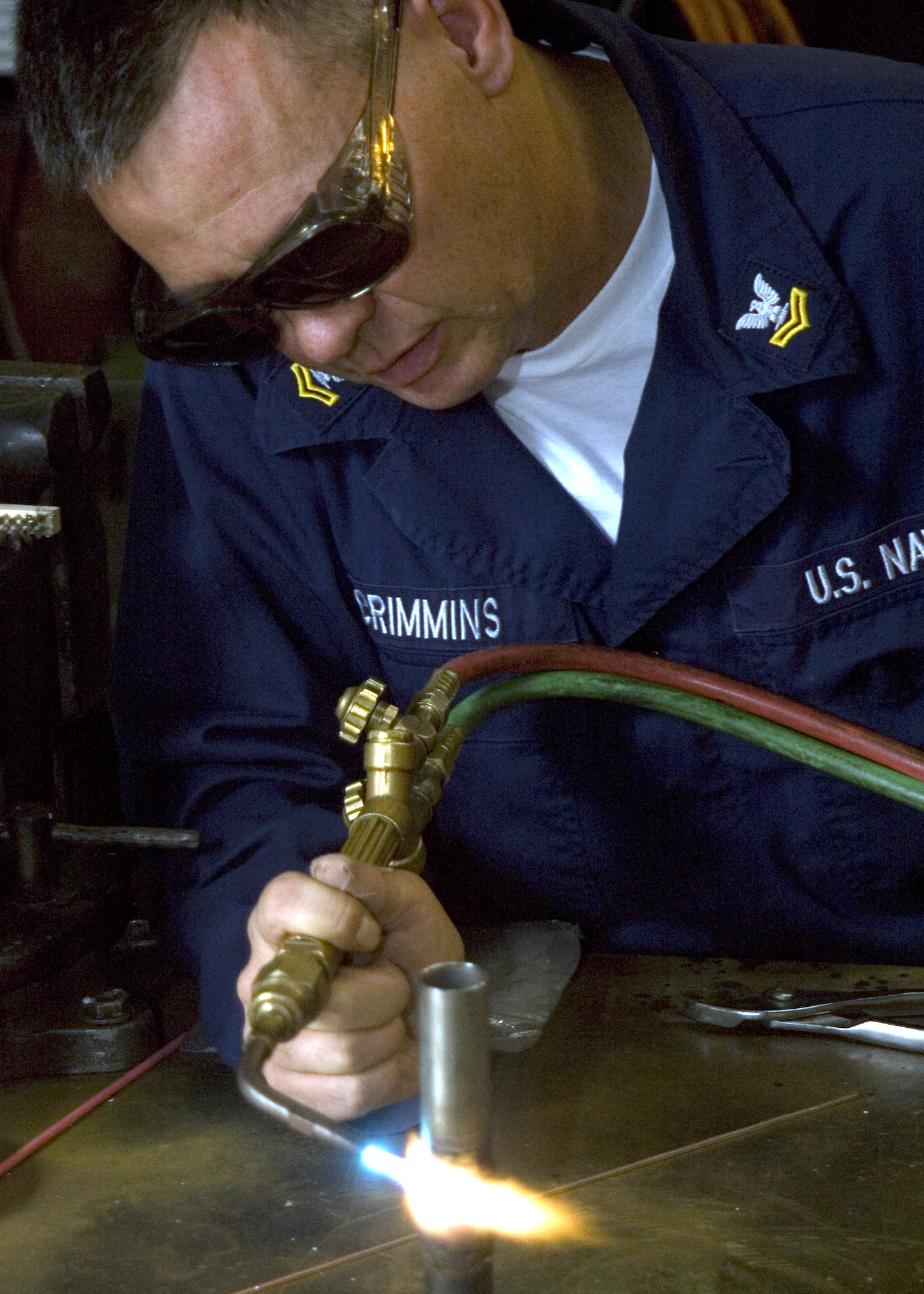 091027-N-9849P-032 SIGONELLA, Sicily (Oct. 27, 2009) Aviation Structural Mechanic 2nd Class Shawn Crimmins, a maintainer at Aircraft Intermediate Maintenance Detachment, Sigonella, practices brazing techniques for an annual welding re-qualification at Naval Air Station Sigonella. Maintainers undergo re-qualification on a regular basis to maintain job proficiency.